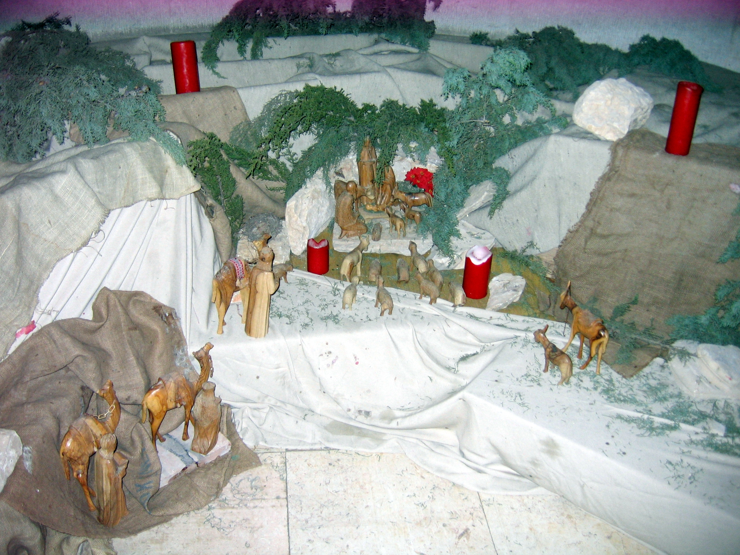 Navity scene in the chapel of peace in Church of the Redeemer, Jerusalem